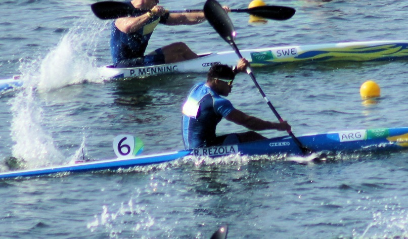 Rubén Rézola, K1, Olympycs 2019